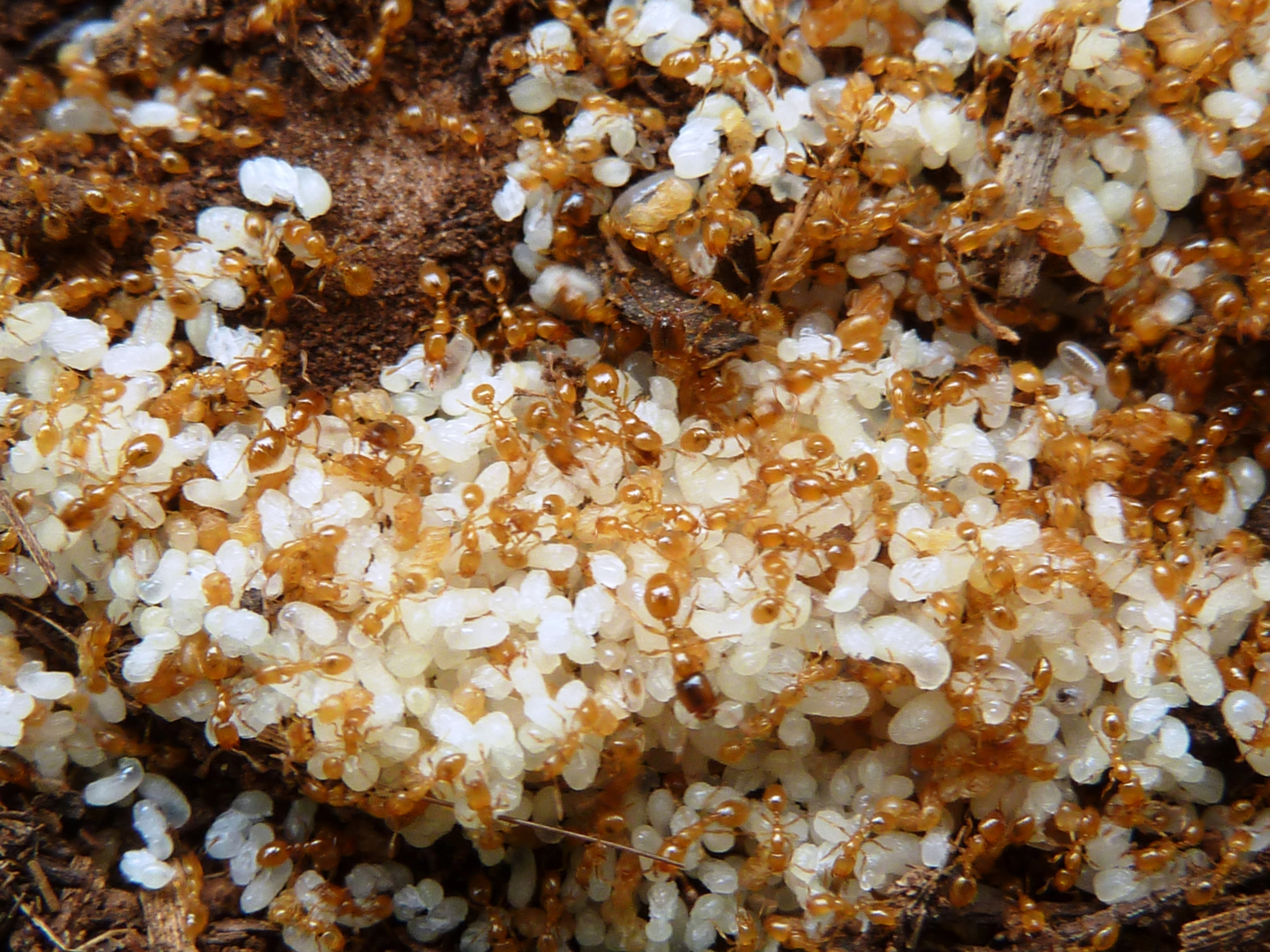 Solenopsis punctaticeps worker ants and pupae in a forest at Skeerpoort in Gauteng, South Africa